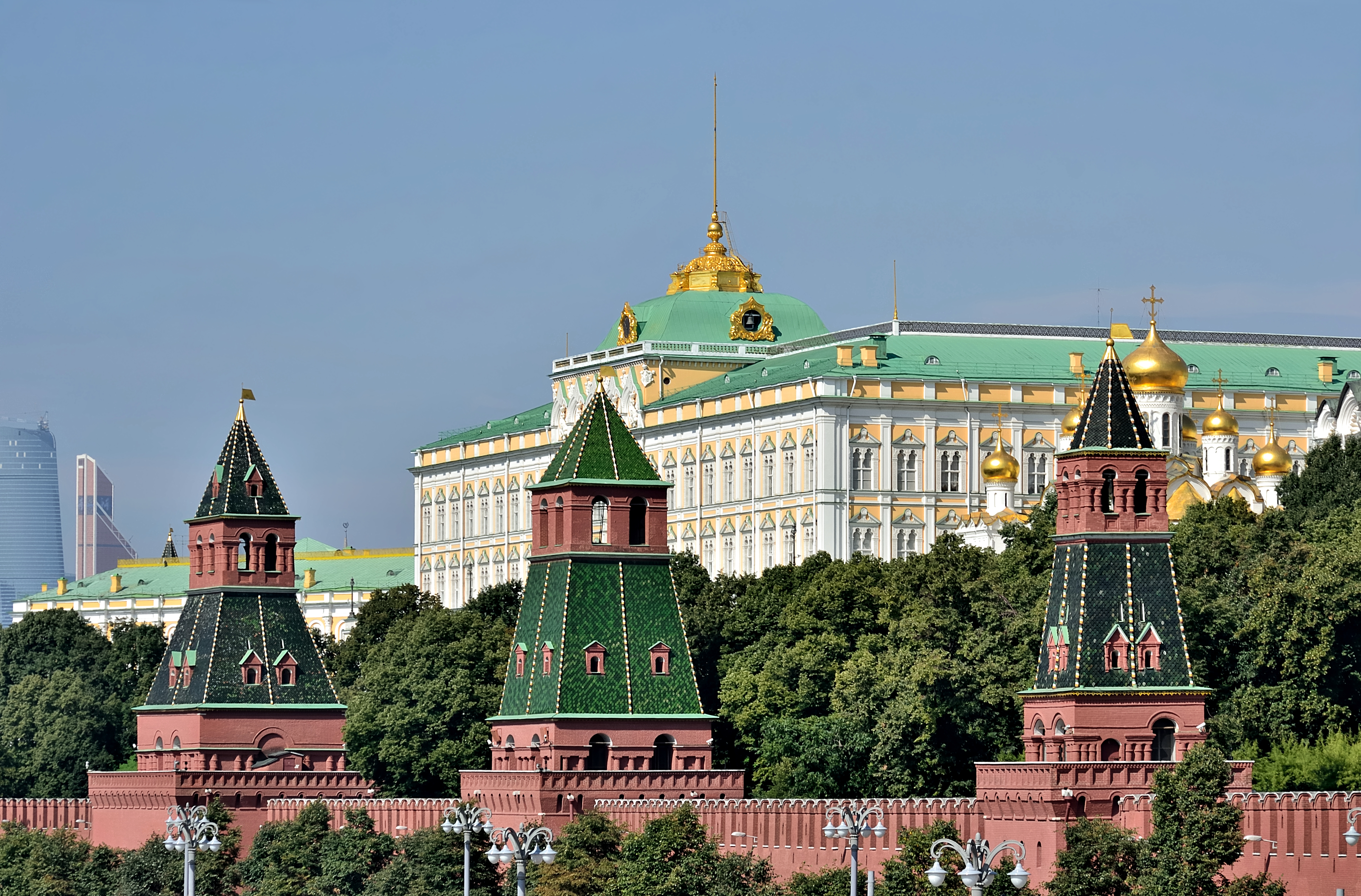 The Moscow Kremlin. Towers of the south wall (from left to right): the Taynitskaya Tower the First Unnamed Tower the Second Unnamed Tower The building of the Grand Kremlin Palace is seen behind the wall; cupolas of the Cathedral of the Annunciation are seen on the right, behind the Second Unnamed Tower.